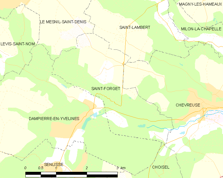 Map of French municipality Saint-Forget